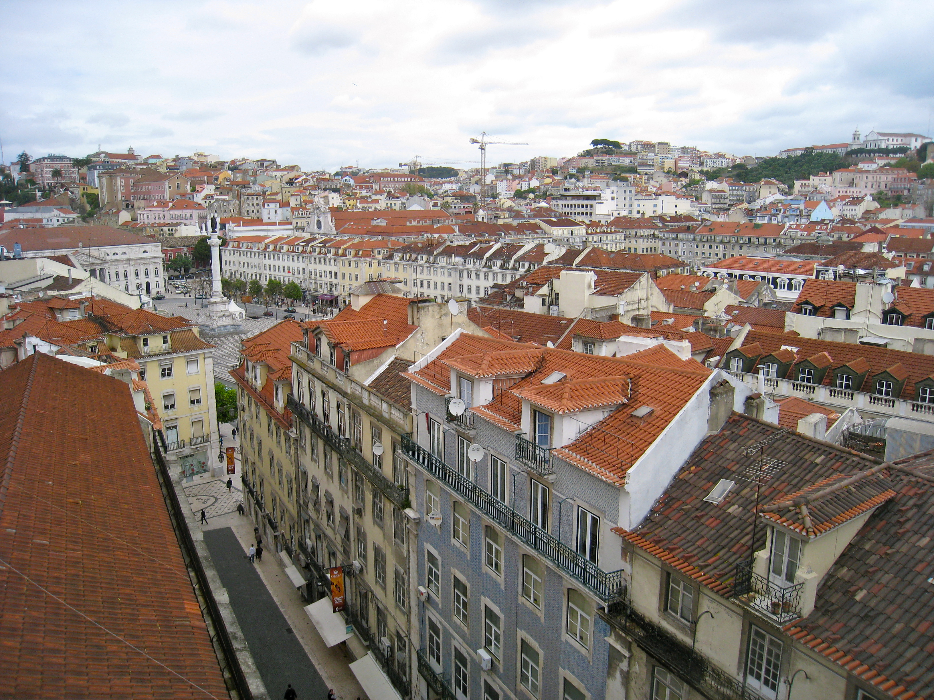 LIsbon With Langon Two - 30